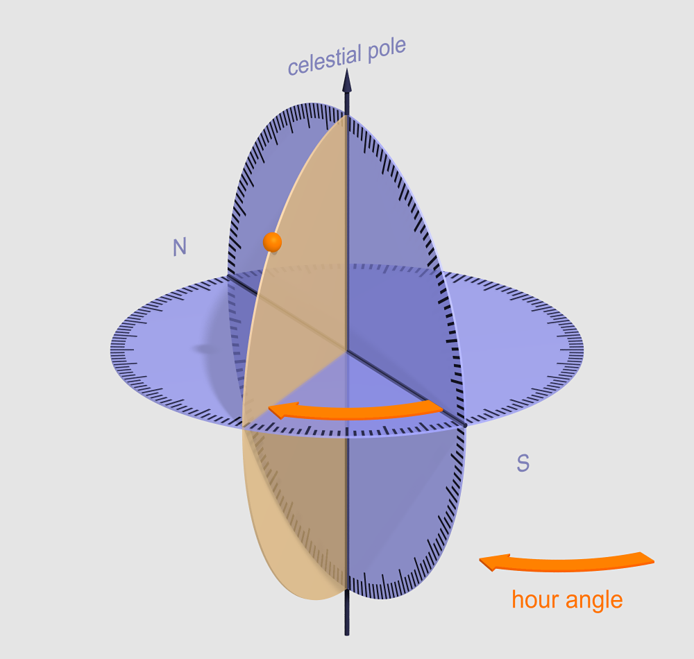 The hour angle of a celestial body is the angle between the meridian and the hour circle on which the body is located.